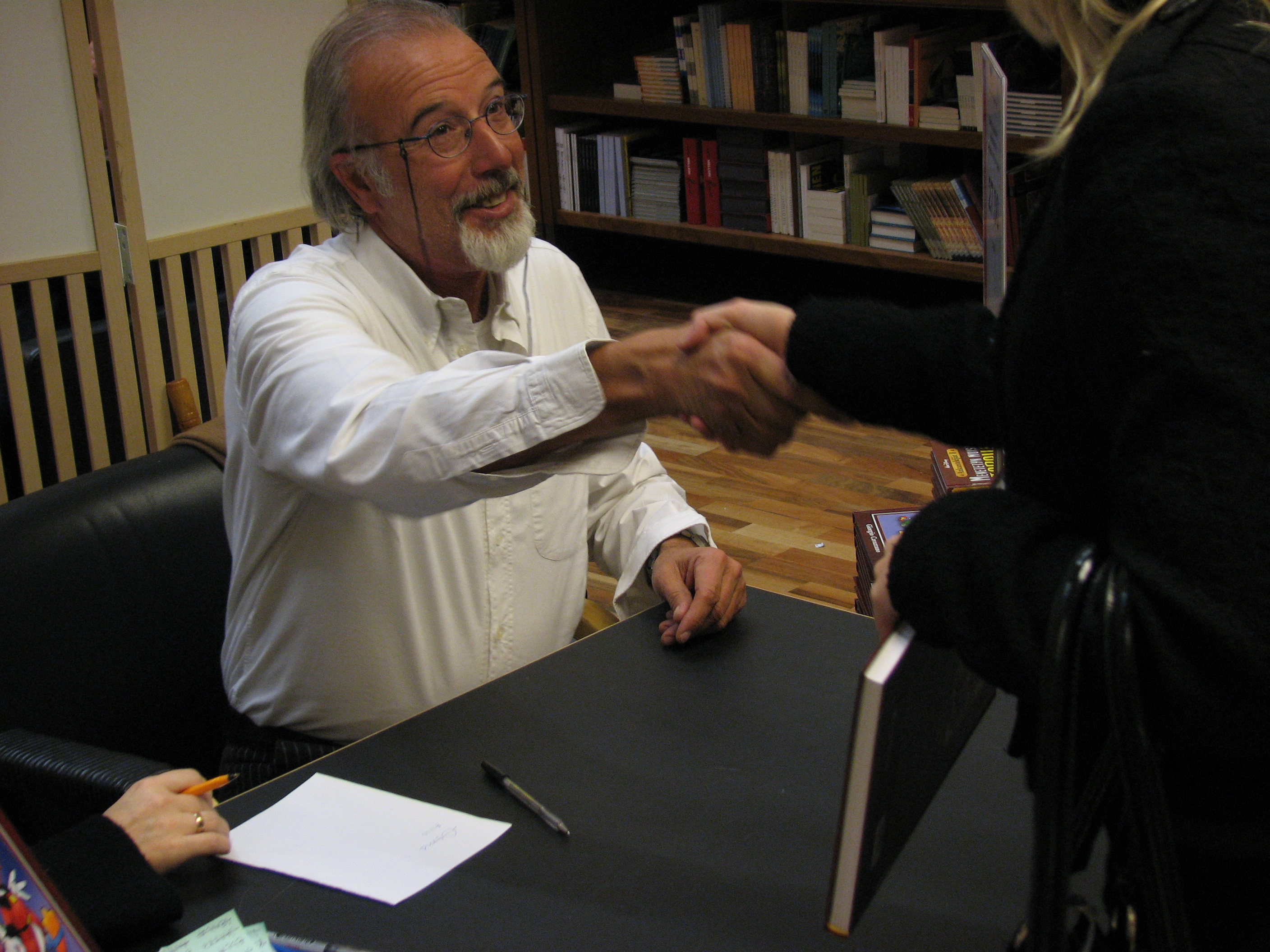 Giorgio Cavazzano signing his comics at the Academic Bookstore in Helsinki, Finland. Photograph taken by me on October 27, 2007.